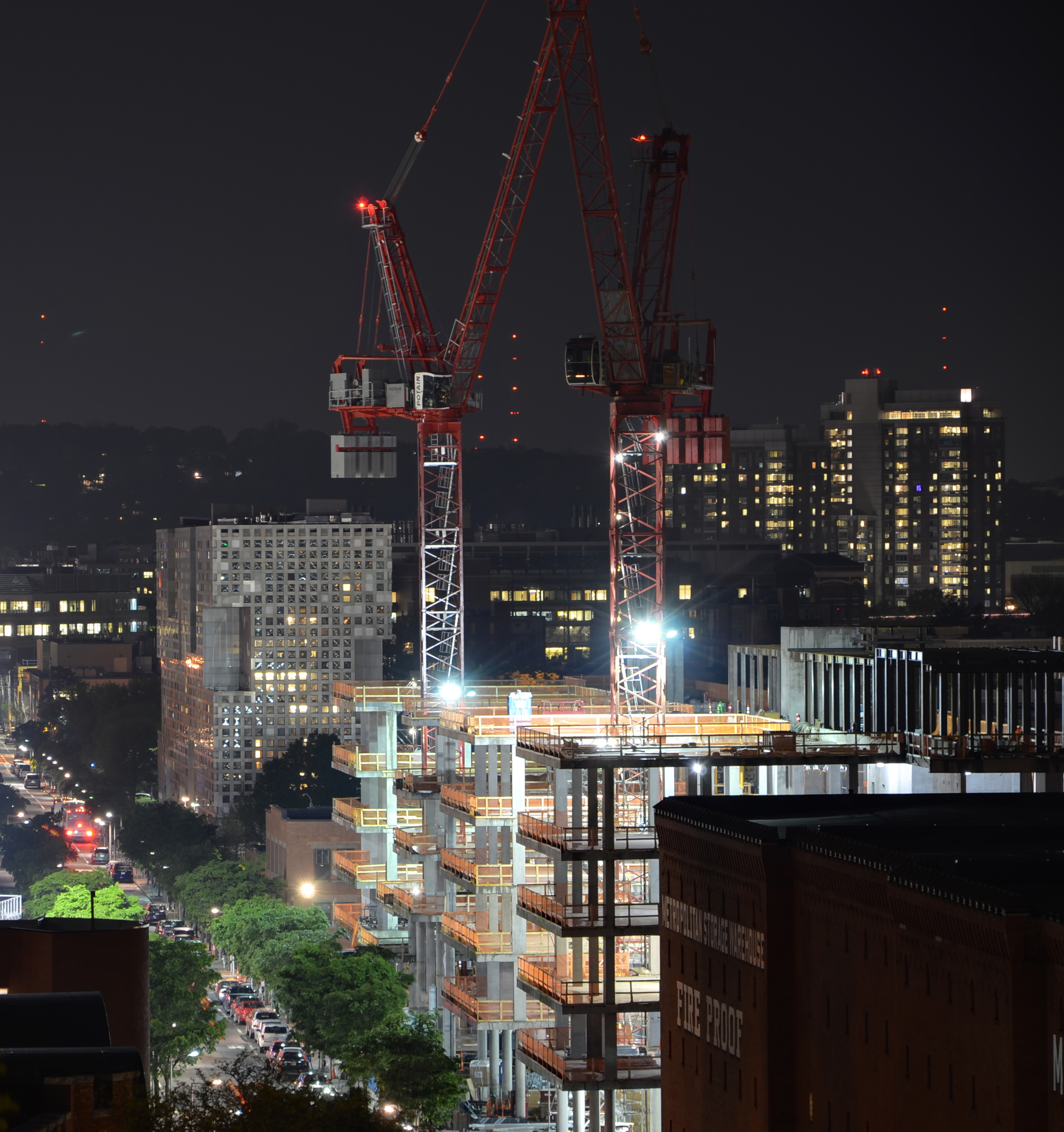 Ongoing construction for the New Vassar dormitory at the Massachusetts Institute of Technology, Taken from Building 37 in May 2019. HDR photo created from 3 exposures.